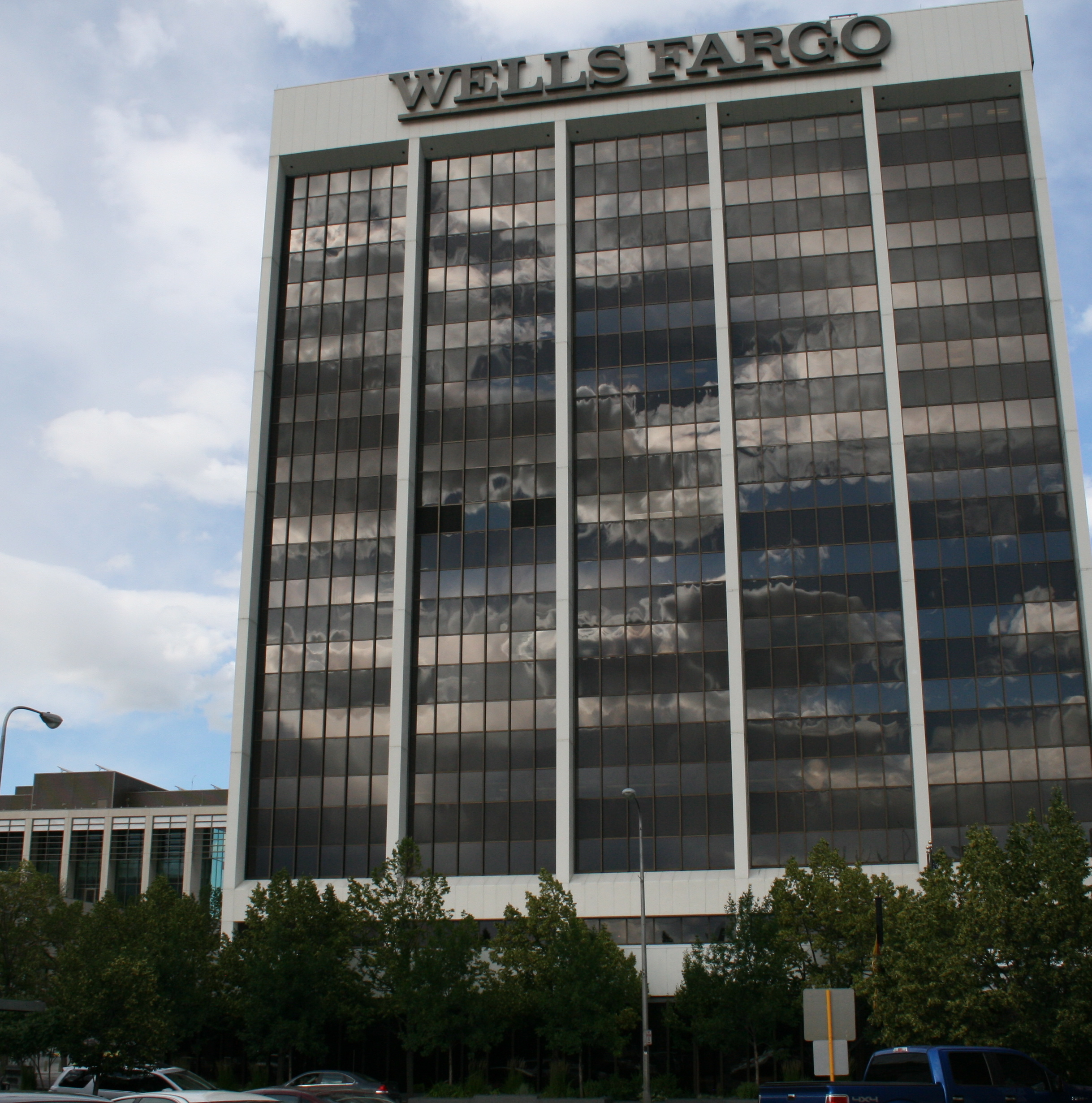 Billings, Wells Fargo Plaza